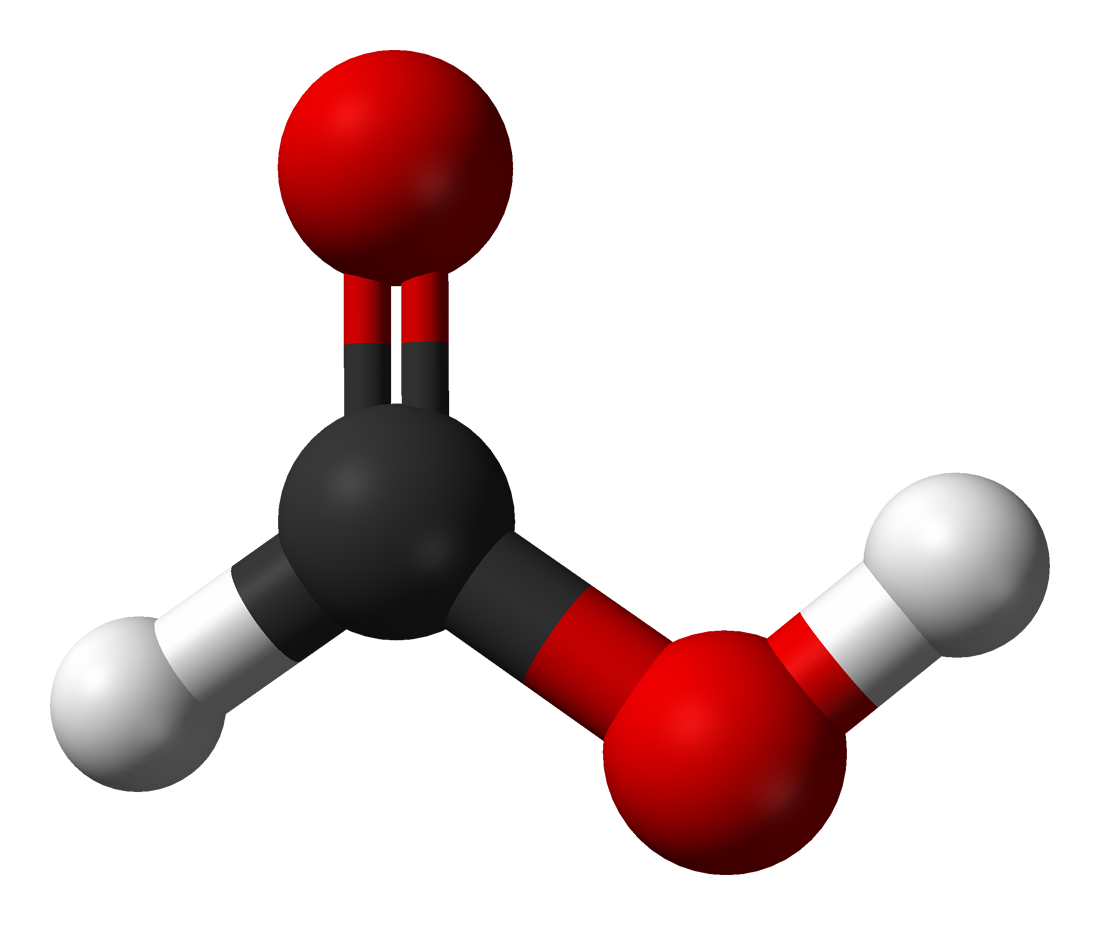 Ball-and-stick model of the formic acid molecule, based on microwave (rotational) spectroscopic data from George Hsing Kwei and R. F. Curl, Jr. (1960). "Microwave Spectrum of O18 Formic Acid and Structure of Formic Acid". The Journal of Chemical Physics 32: 1592-1594.